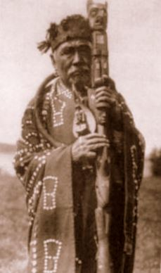 Curtis photograph of a Kwakwaka'wakw (Northwest US) tribesman is shown with a talking stick. Alternate description: "Hamasaka in Tlu Wulahu costume with Speaker’s Staff - Qagyuhl, British Columbia, approximately 1914. Elders played a key role in the education of Aboriginal children. Library and Archives Canada, Edward S. Curtis, Edward Curtis’s The North American Indian collection, C-020826."